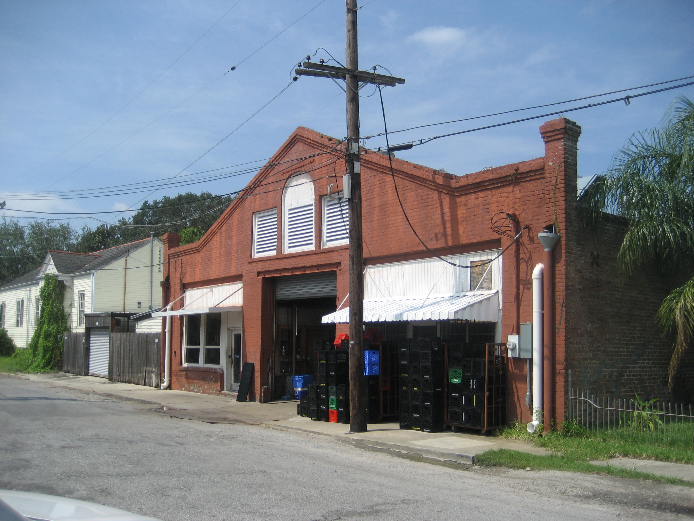 New Orleans: Warehouse for Langenstein's grocery store